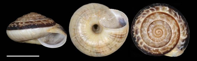 Composition of the 3 main views of the shell of Xeroplexa scabiosula. Locality: Moncarapacho, Faro (Portugal).